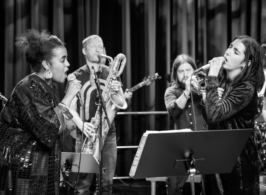 Sofia Jernberg and Mariam Wallentin performs with Fire! Orchestras at the stage of Sentralen. The concert was part of the Oslo Jazz Festival in Norway and took place on 18. August 2016. Lineup: Mats Gustafsson (saxophone) Johan Berthling (bass guitar) Andreas Werliin (drums) Mariam Wallentin (vocal) Sofia Jernberg (vocal)